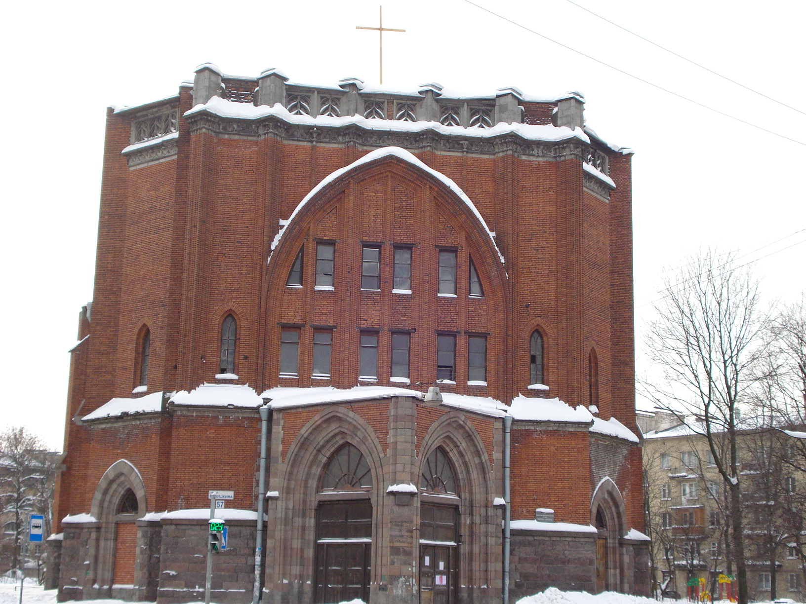 Saint Petersburg (Russia), Sacre Coeur Church